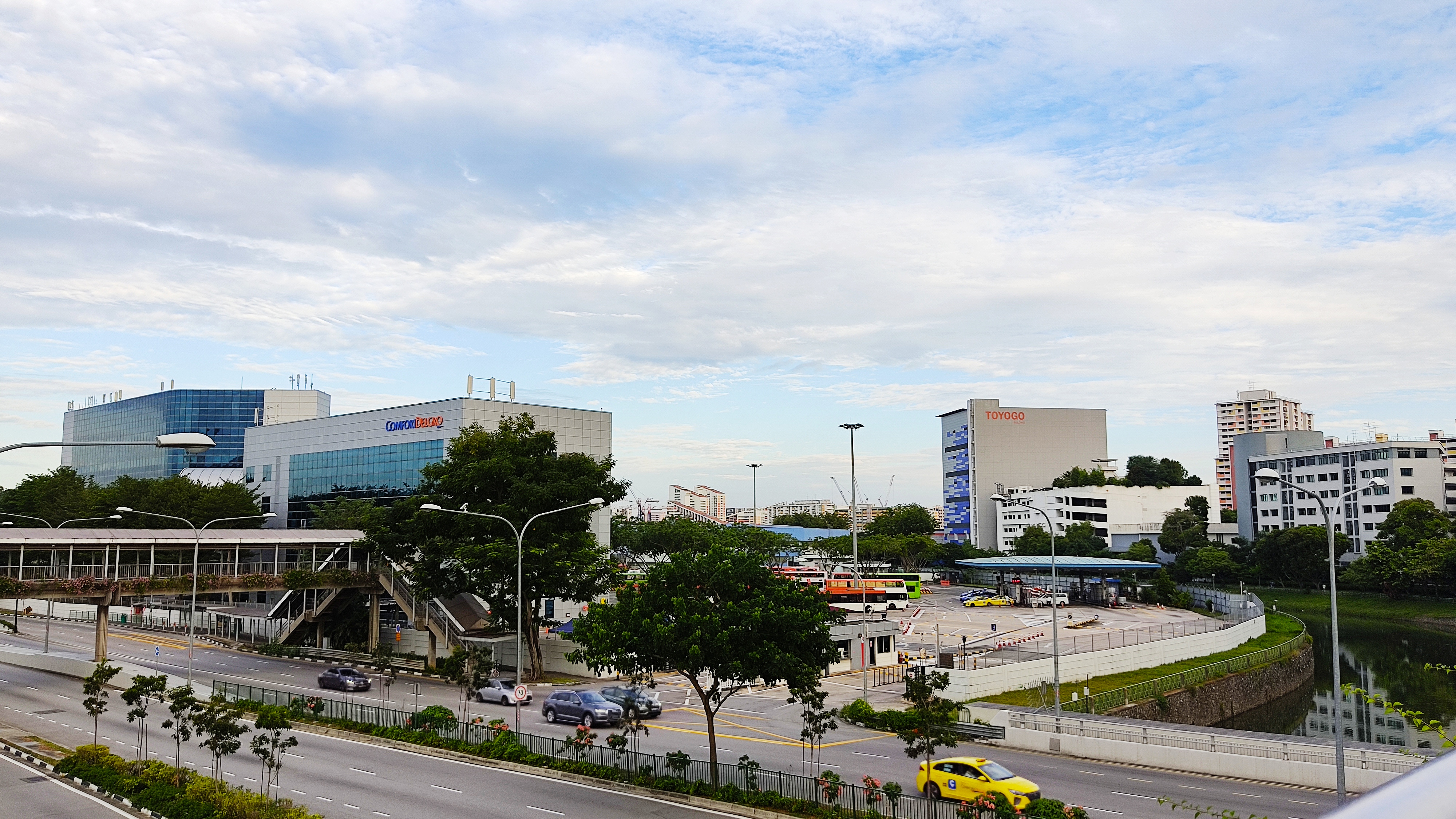 Comfort Delgro Headquarters and Depot along Bradell Road